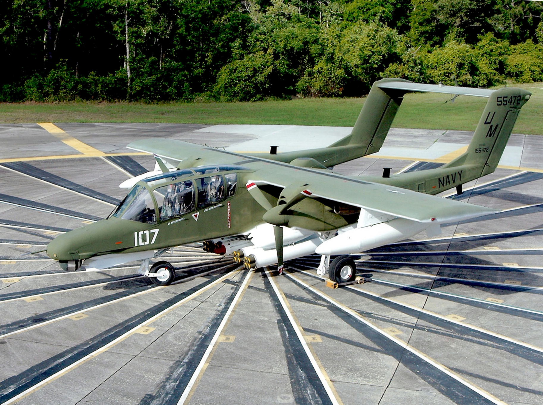 A U.S. Navy North American OV-10D Bronco (BuNo 155472) at the U.S. Navy National Museum of Naval Aviation. It is shown in the markings of the Light Attack Squadron (VAL-4) "Black Ponies" as it was in Vietnam in 1969.